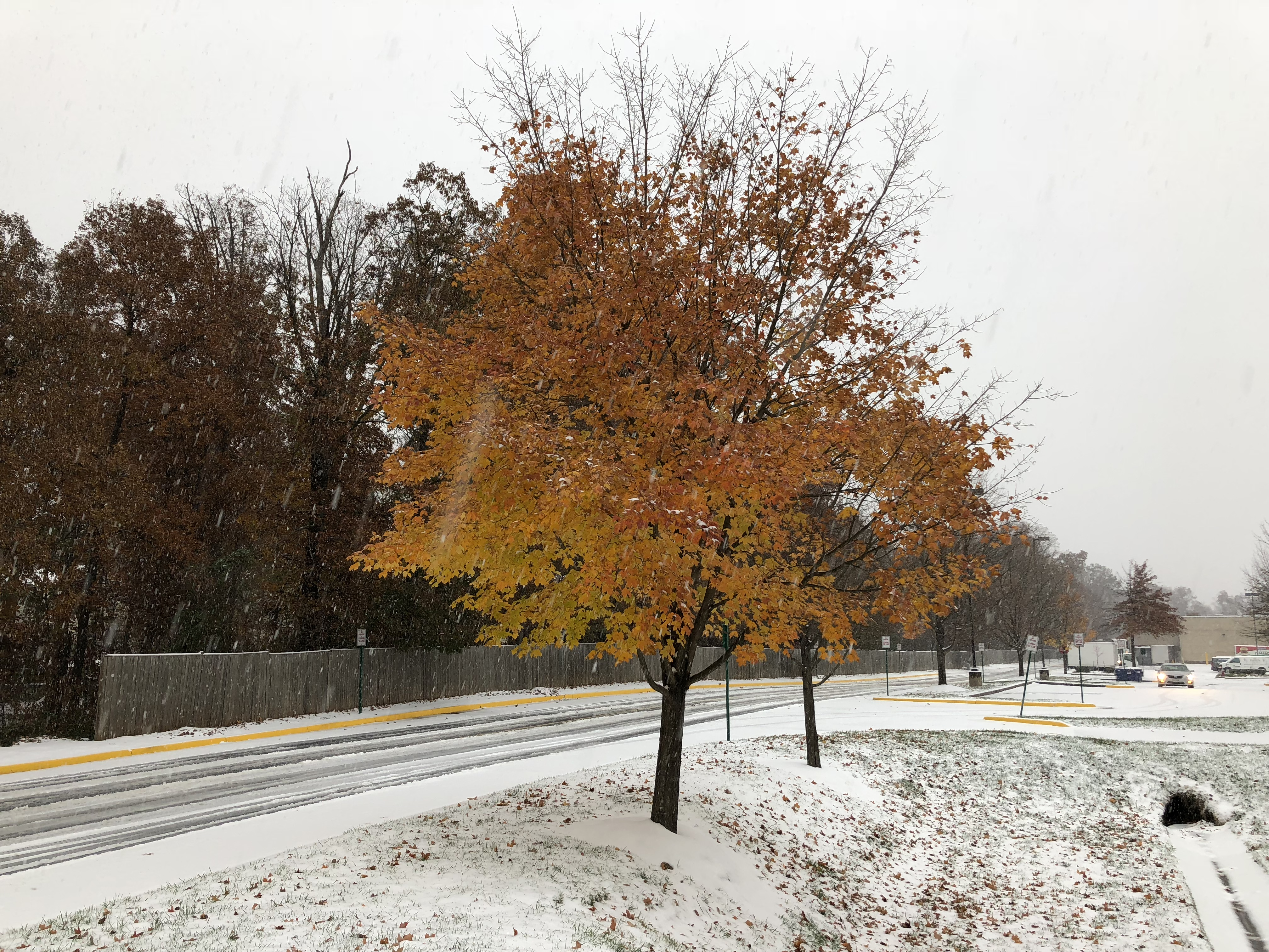 A snow and sleet covered Sugar Maple along Stone Heather Drive in the Franklin Farm section of Oak Hill, Fairfax County, Virginia